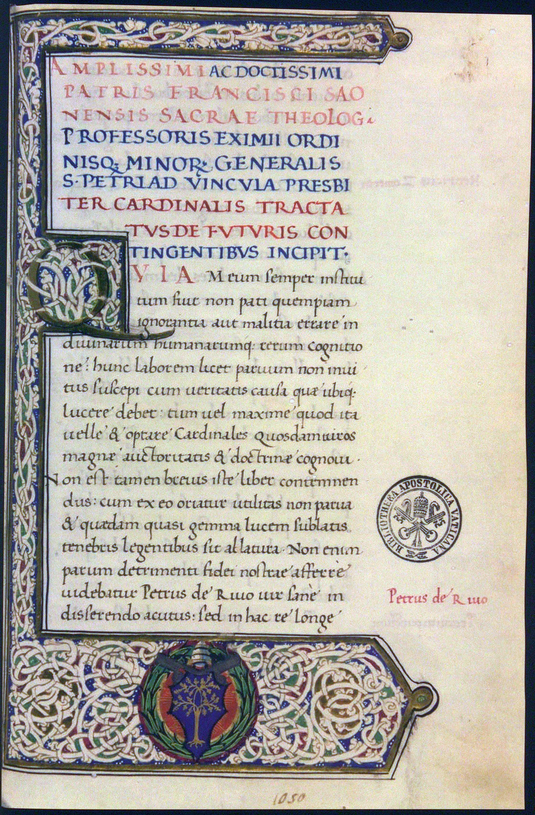 The beginning of the treatise De futuris contingentibus by Cardinal Francesco della Rovere, who later became Pope Sixtus IV, in the manuscript Vatican City, Biblioteca Apostolica Vaticana, Vat. lat. 1050, fol. 1r.